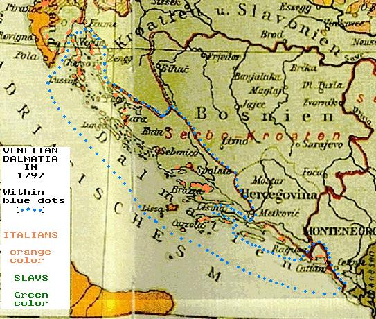 Map of Venetian Dalmatia in 1797, with painted references to the local ethnic populations of Italians and Slavs (according to an austro-ungarian ethnic map of 1896). Mappa della Dalmazia veneta nel 1797, con riferimenti etnici sugli Italiani e Serbo-croati (prendendo come base una mappa etnica dell'impero asburgico del 1896).